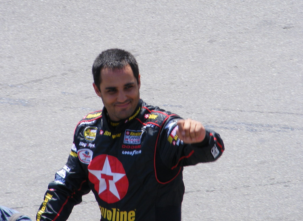 Juan Pablo Montoya waves to spectators during 2007 Pennsylvania 500